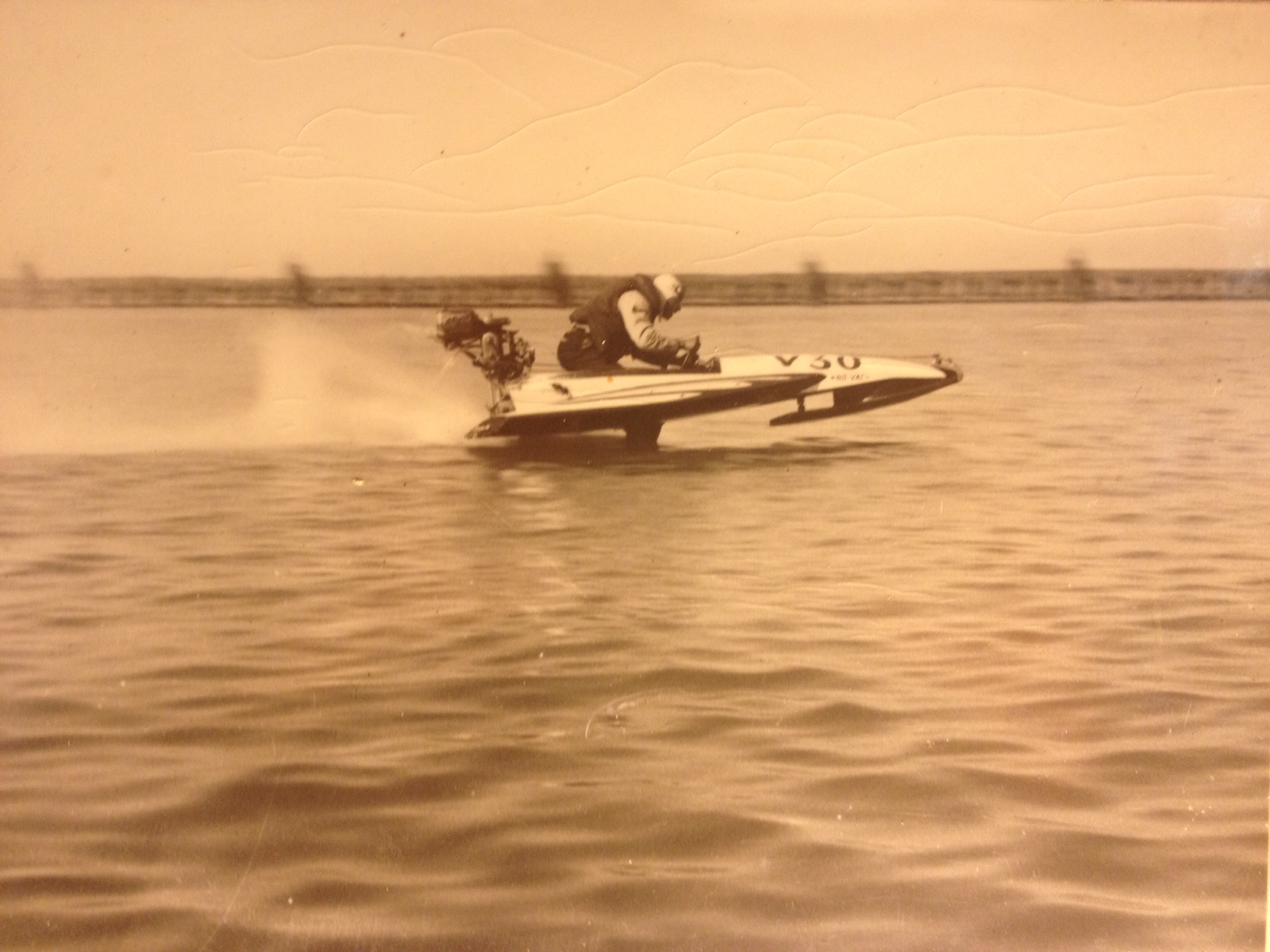 Jimmy Rodgers in the prototype hydroplane "No-Vac" setting the June 1933 world water outboard speed record 78 MPH